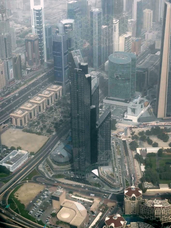 Burg el Khalifa 21